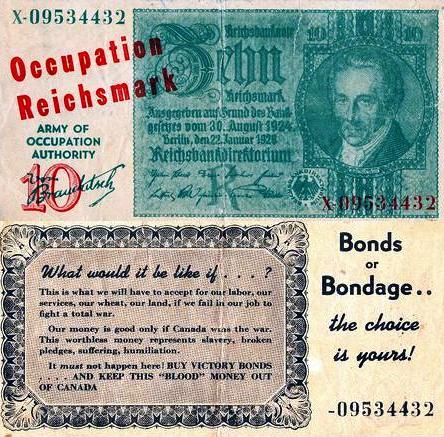 A flyer promoting the sale of Victory Bonds in Canada, with the slogan "Bonds or Bondage - The Choice is Yours". It warns Canadians that their money is only good if they win the war, and that they will be forced to accept "Occupation Reichsmarks" if the war is lost. It urges Canadians to "Buy Victory Bonds ... and keep this 'blood' money out of Canada."